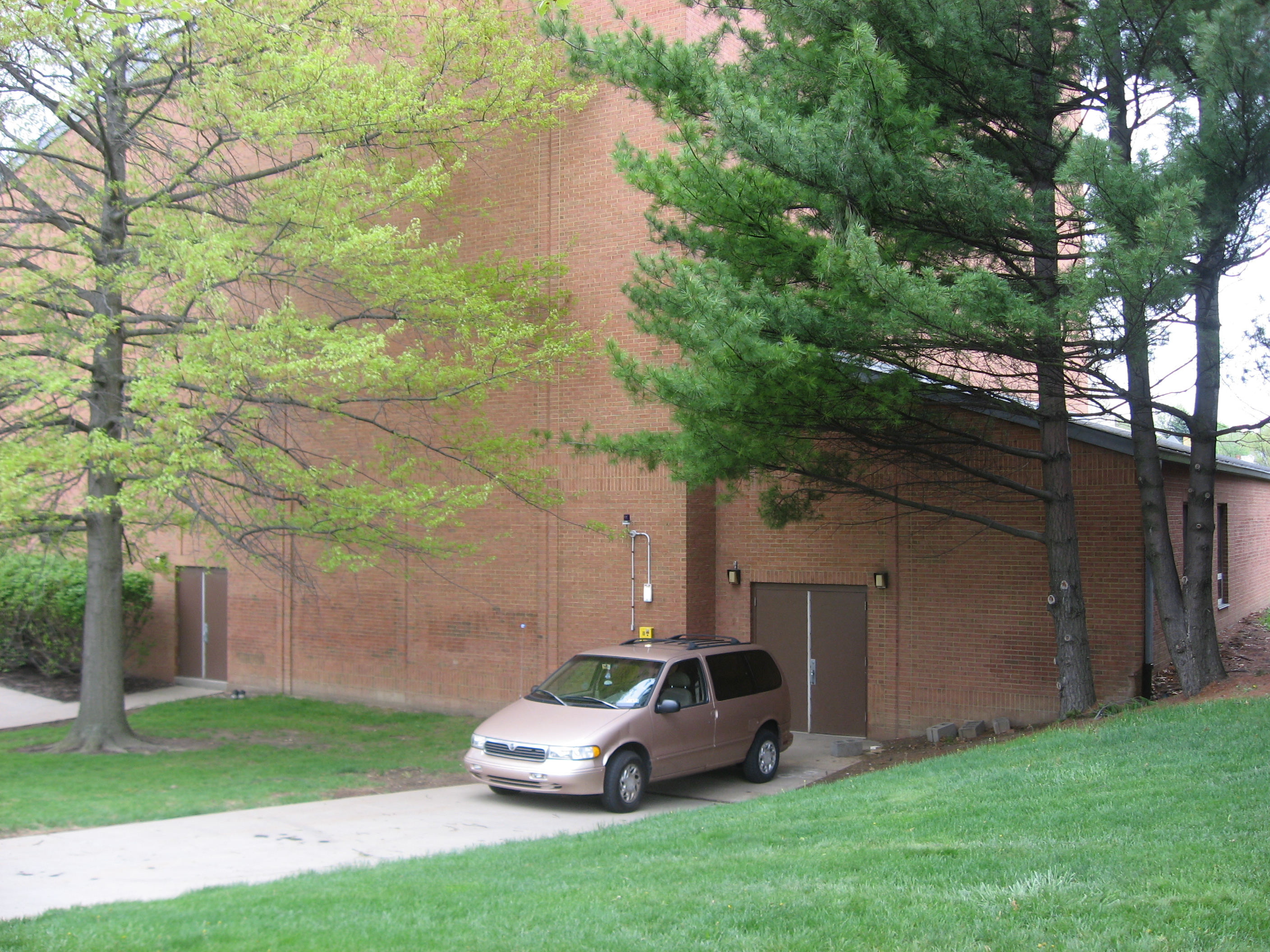 Site of the former Sackville House, formerly located at 309 E. Wheeling Street on the campus of Washington & Jefferson College in Washington, Pennsylvania, United States. Built in 1890, the house was demolished and replaced by the college's performing arts center in 1982. It was listed on the National Register of Historic Places in 1976 and was removed in August 2010.